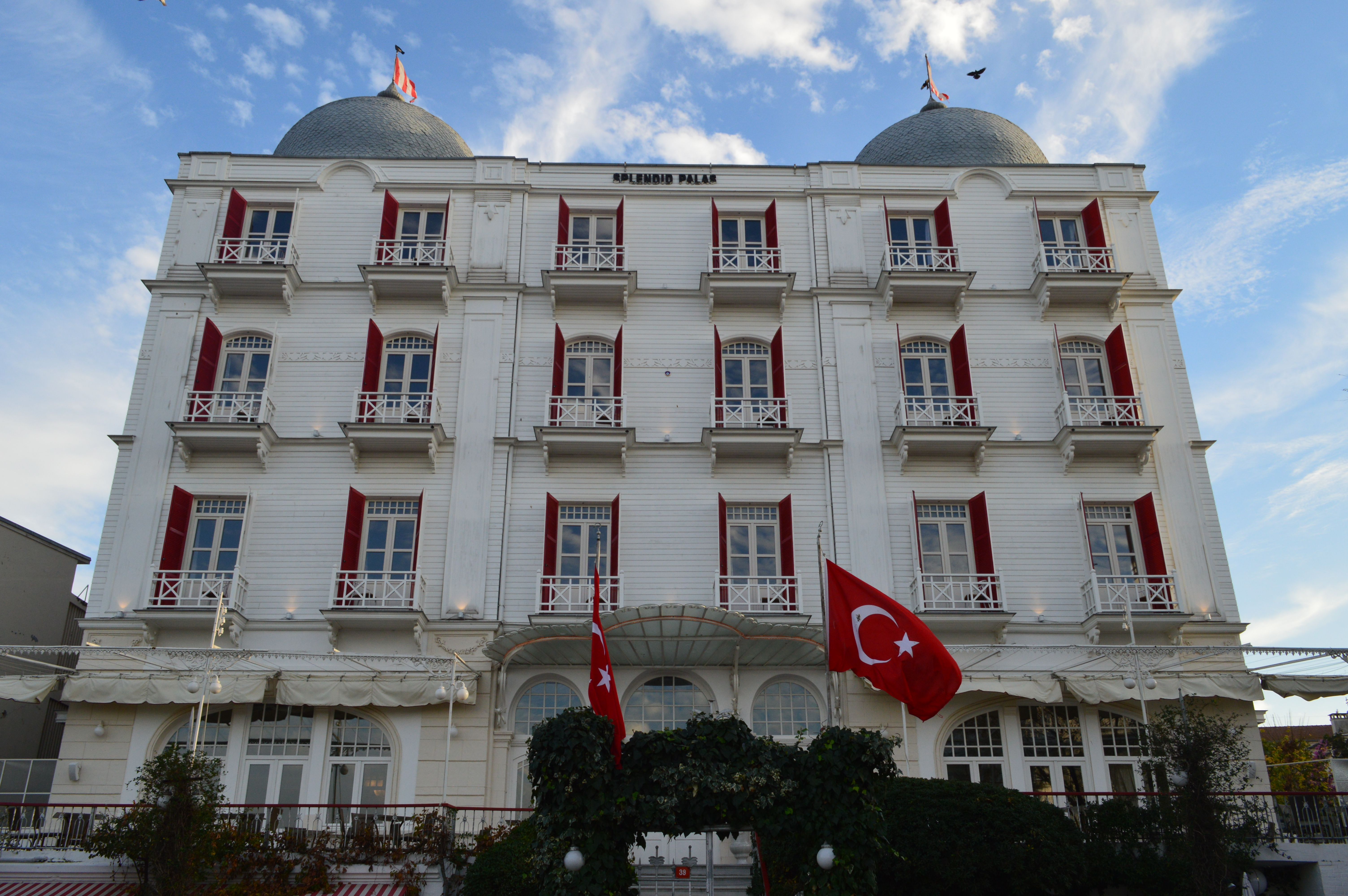 Splendid Palas Hotel, Büyükada, Istanbul, Turkey.